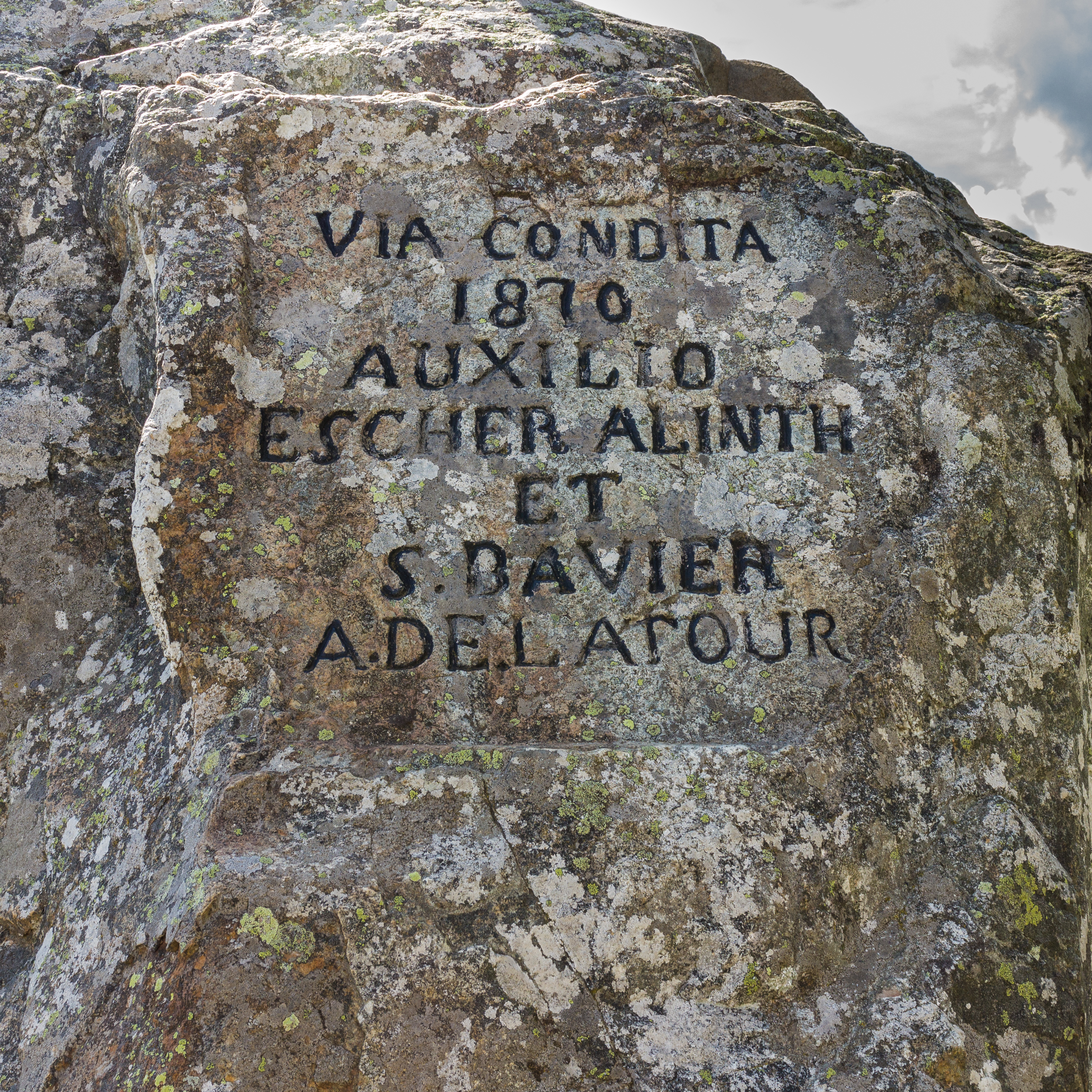 Viewpoint at Breil-Brigels. Memorial stone.